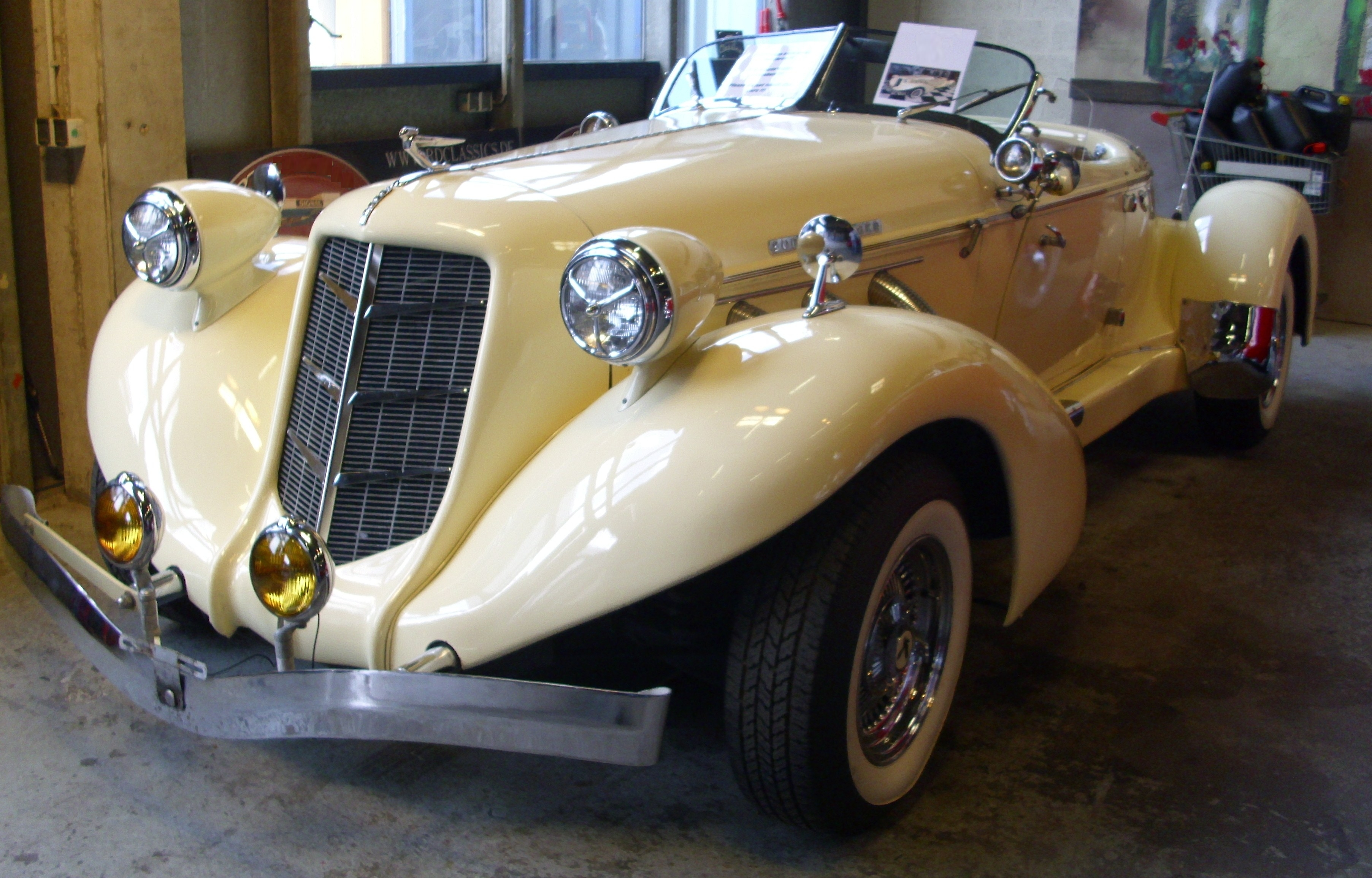 California Custom Coach Auburn 876 Speedster Convertible Roadster 1978